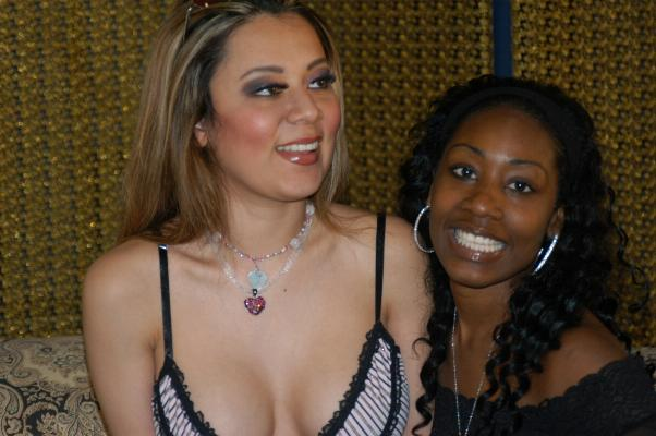 Catalina and Beauty Dior on the set of "Lesbian Swirl Fest 10" on February 3, 2005